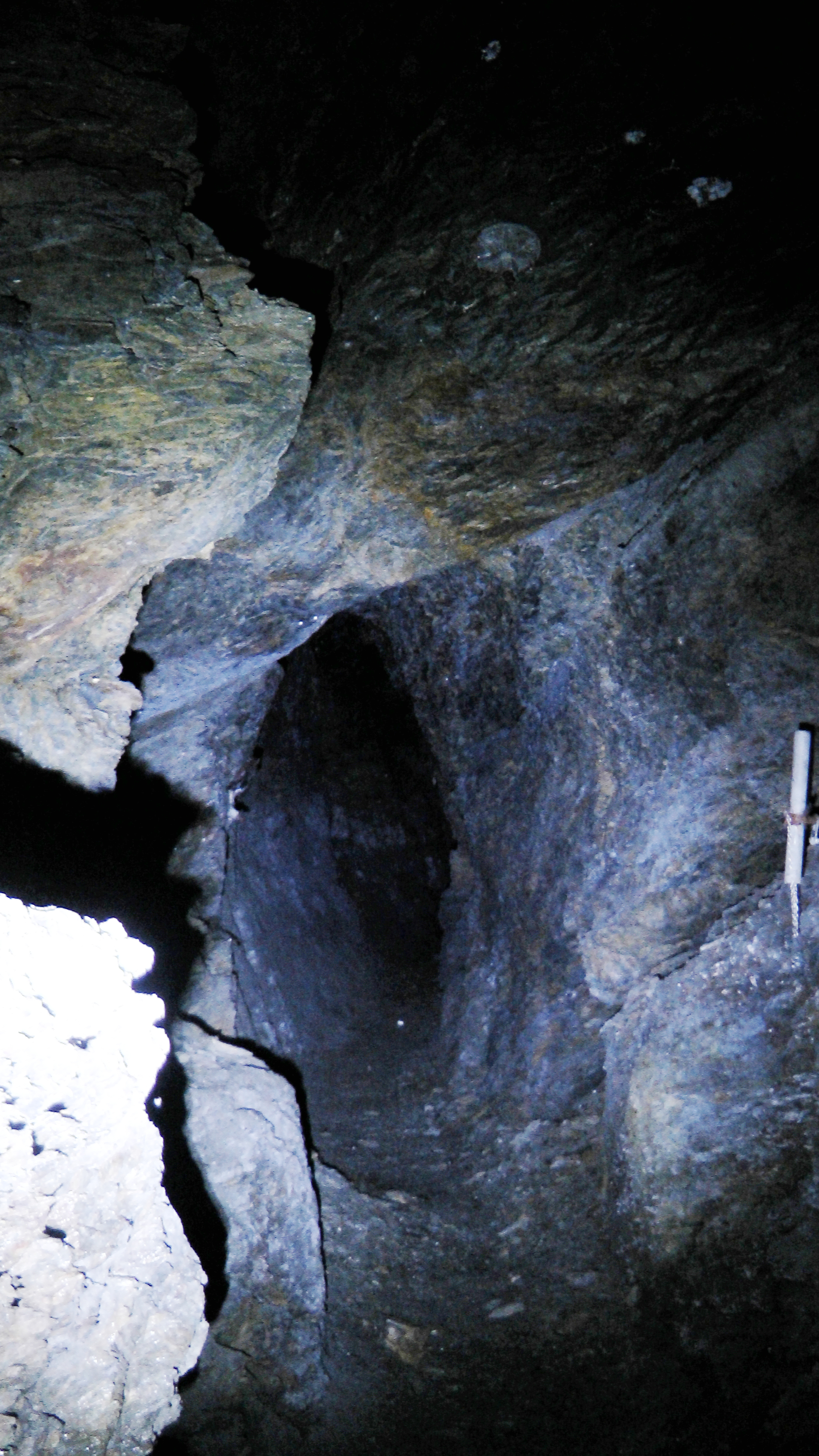 Arsenic show mine St. Blasen, Styria Austria